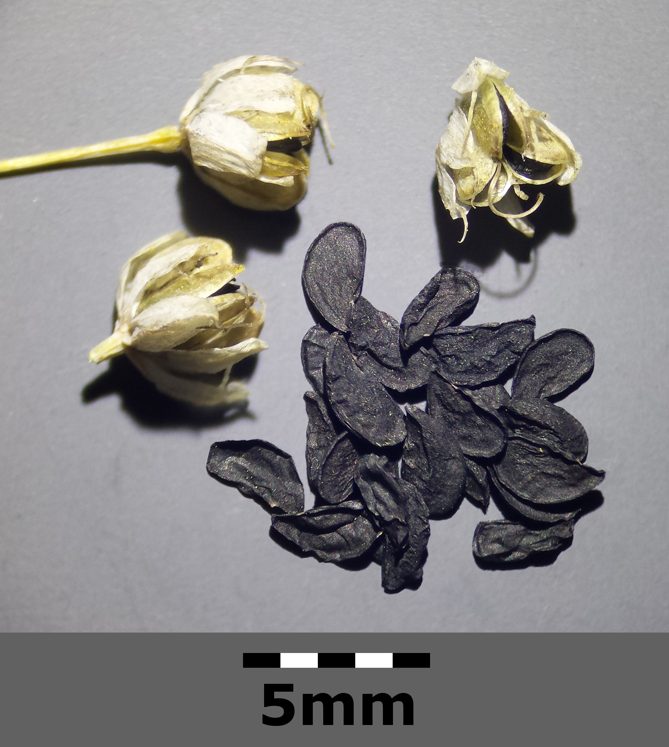 Fruits with seeds Taxon: Allium flavum (sensu Fischer et al. EfÖLS 2008 ISBN 978-3-85474-187-9) Location: Haulesbergen, district Mistelbach, Lower Austria - ca. 200 m a.s.l. Habitat: dry grassland